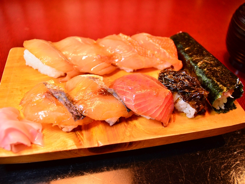 Shima Zushi （島寿司）